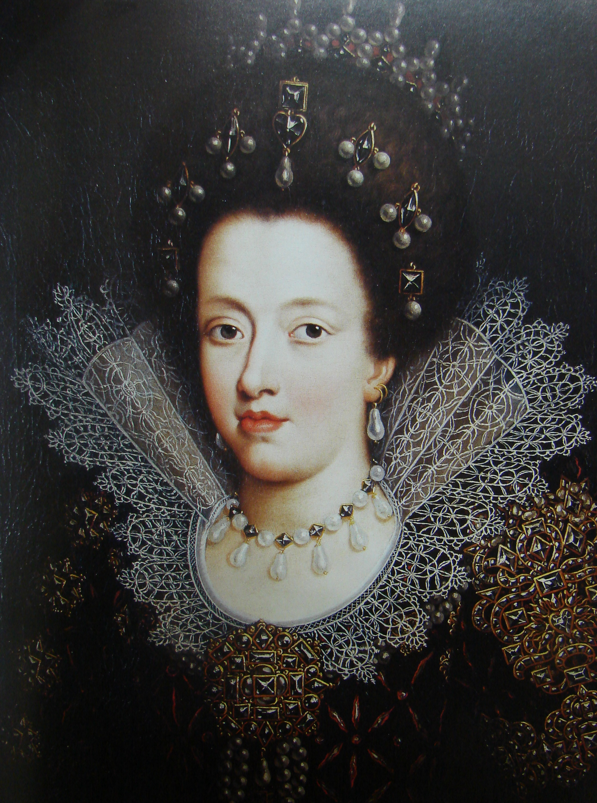 Margherita Gonzaga, duchess of Lorena